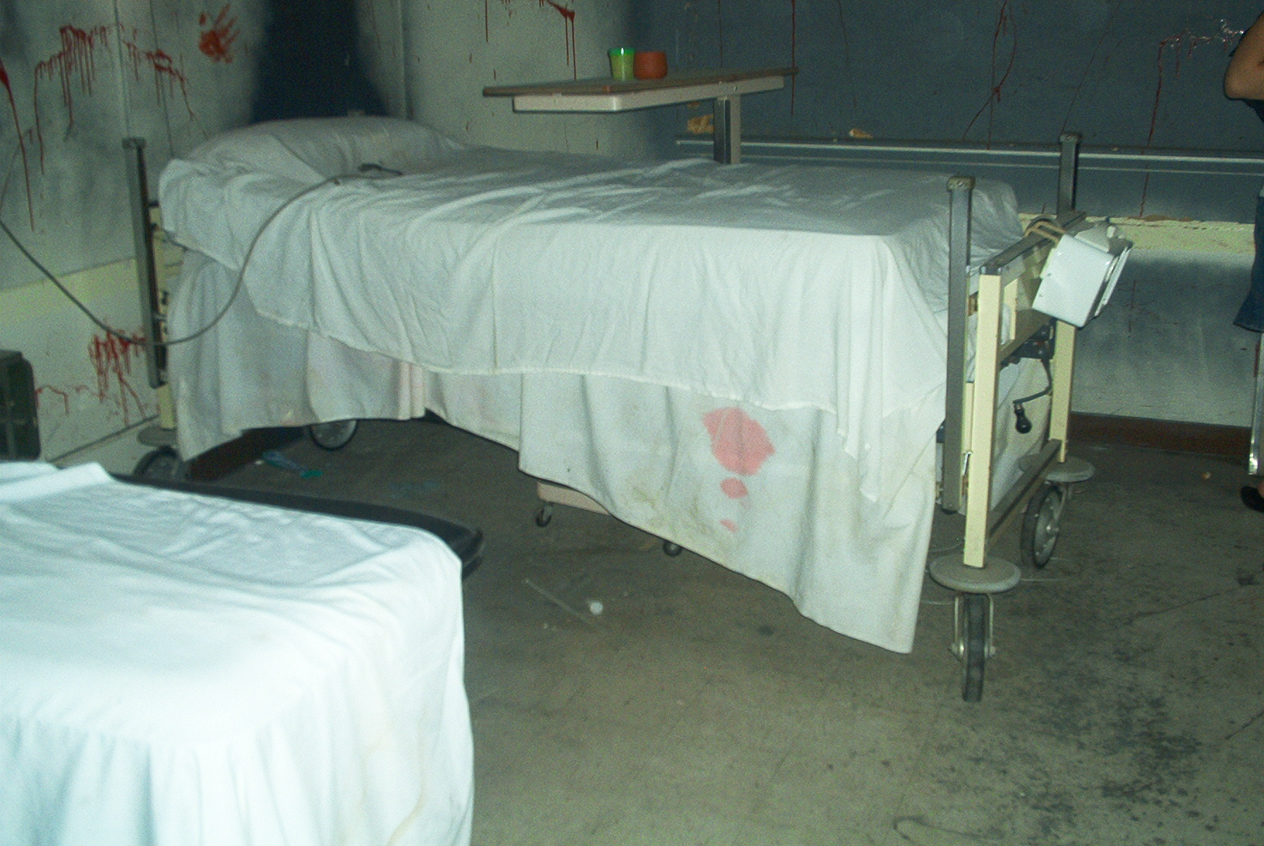 Picture taken in 2001, some of the patient beds that were part of the "Scream If You Can" attraction at Wolfe Manor.